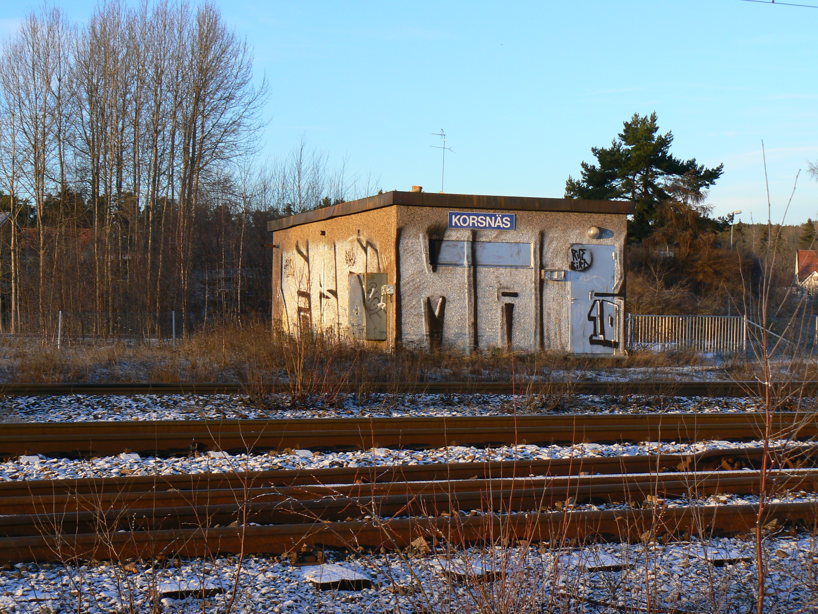 Korsnäs railway station, Sweden. Today only used for trains to meet. Photo by Skvattram 2007-01-06.